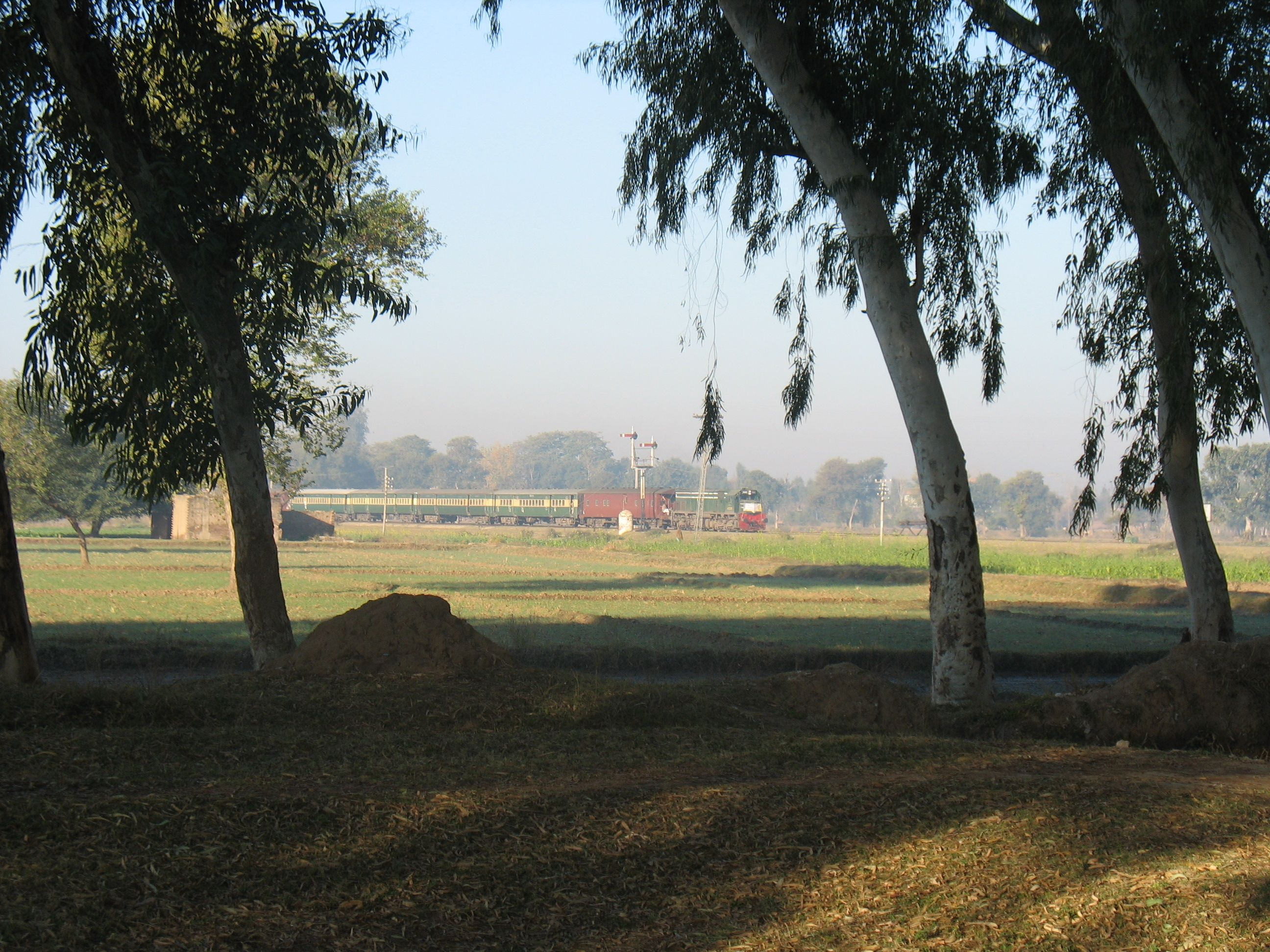 Train at Chak No. 1 Chillianwala Station, Mandi Bahauddin District, Punjab, Pakistan